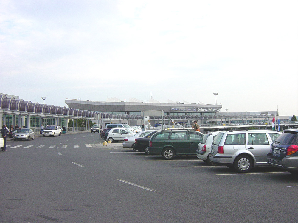 Exterior view of Ferigehy Airport from the departure passengers platform outside Terminal 2B